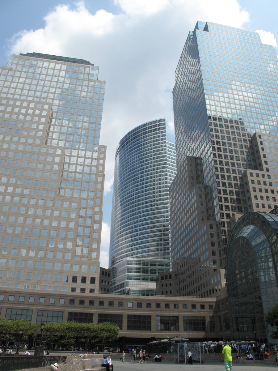 WFC & GoldmanSachs